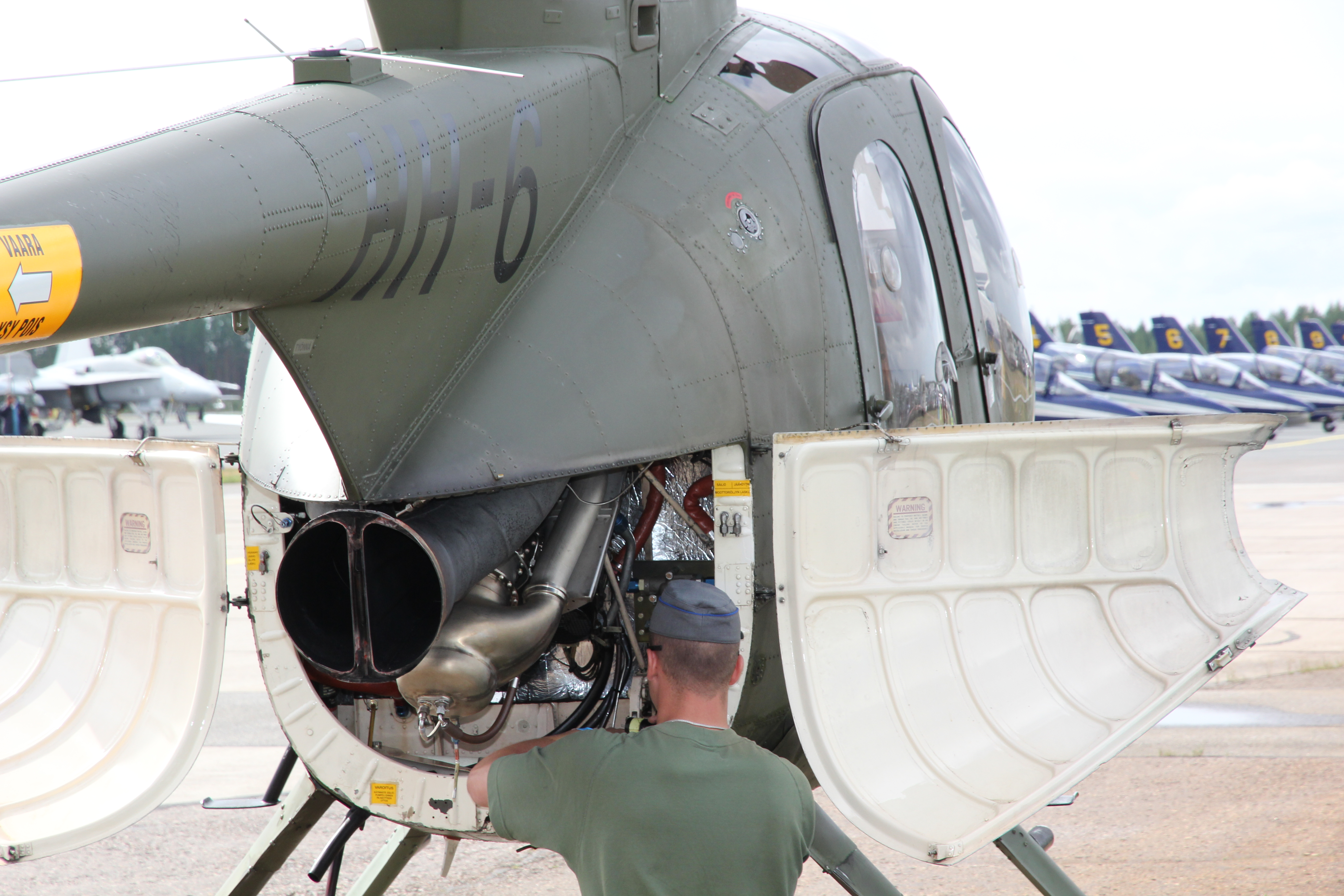 Finnish army MD 500D helicopter (HH-6) at Oulu Airport at Tour de Sky 2014 air show. Allison 250 engine.